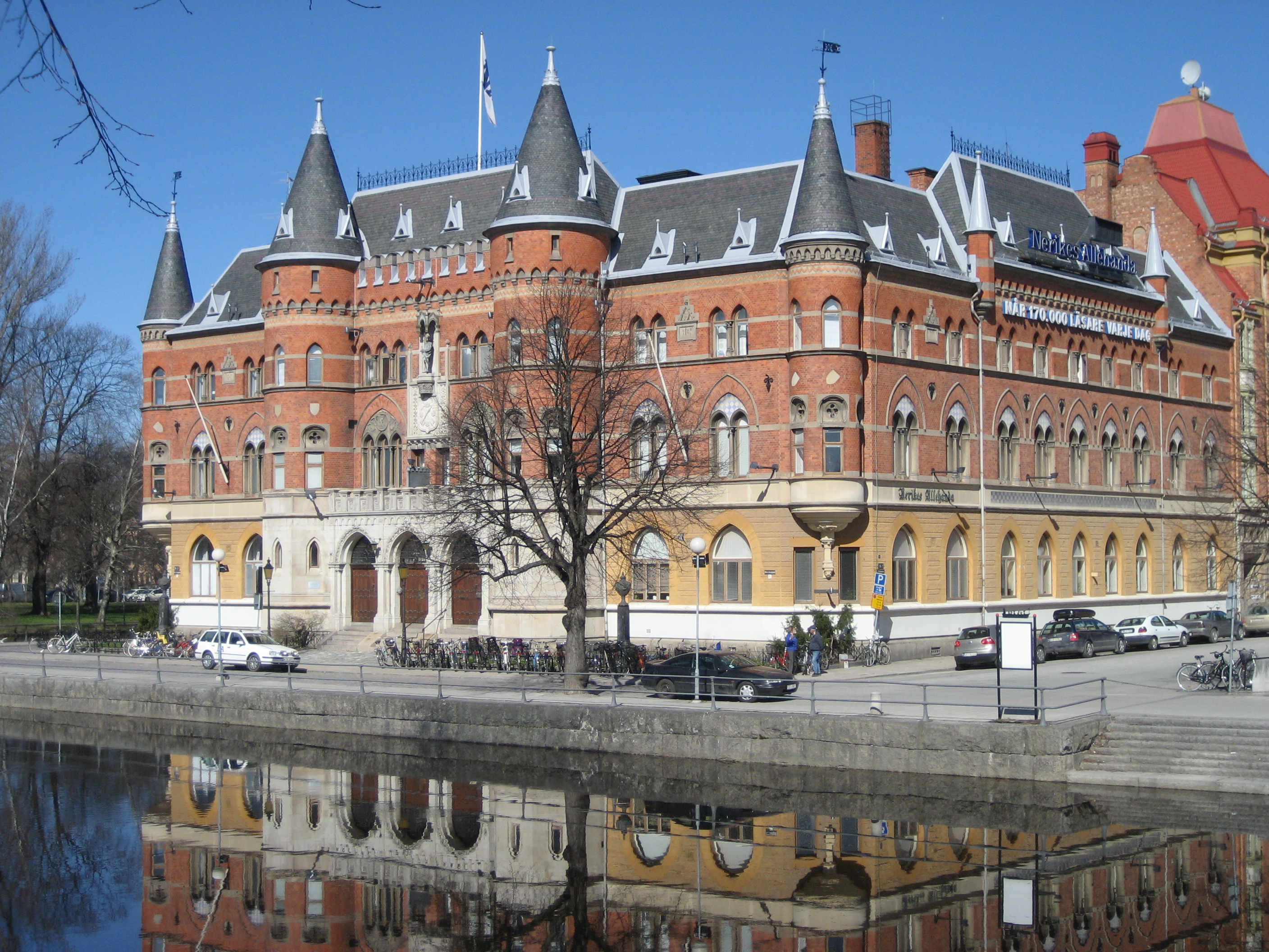 Allehandaborgen in Örebro, Sweden.